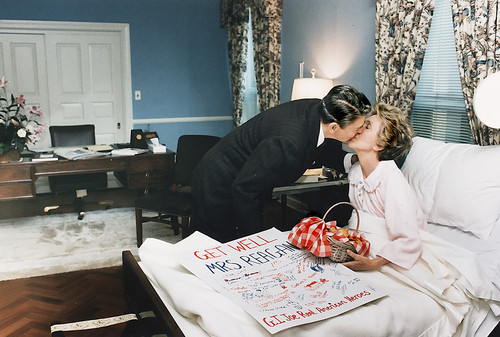 Nancy Reagan gets a kiss from her husband, President Ronald Reagan after having a mastectomy at Bethesda Naval Hospital, Maryland, 1987